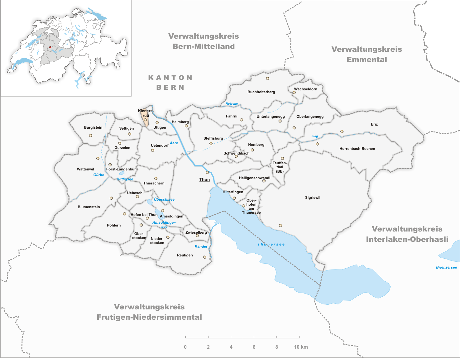 Municipality Kienersrüti